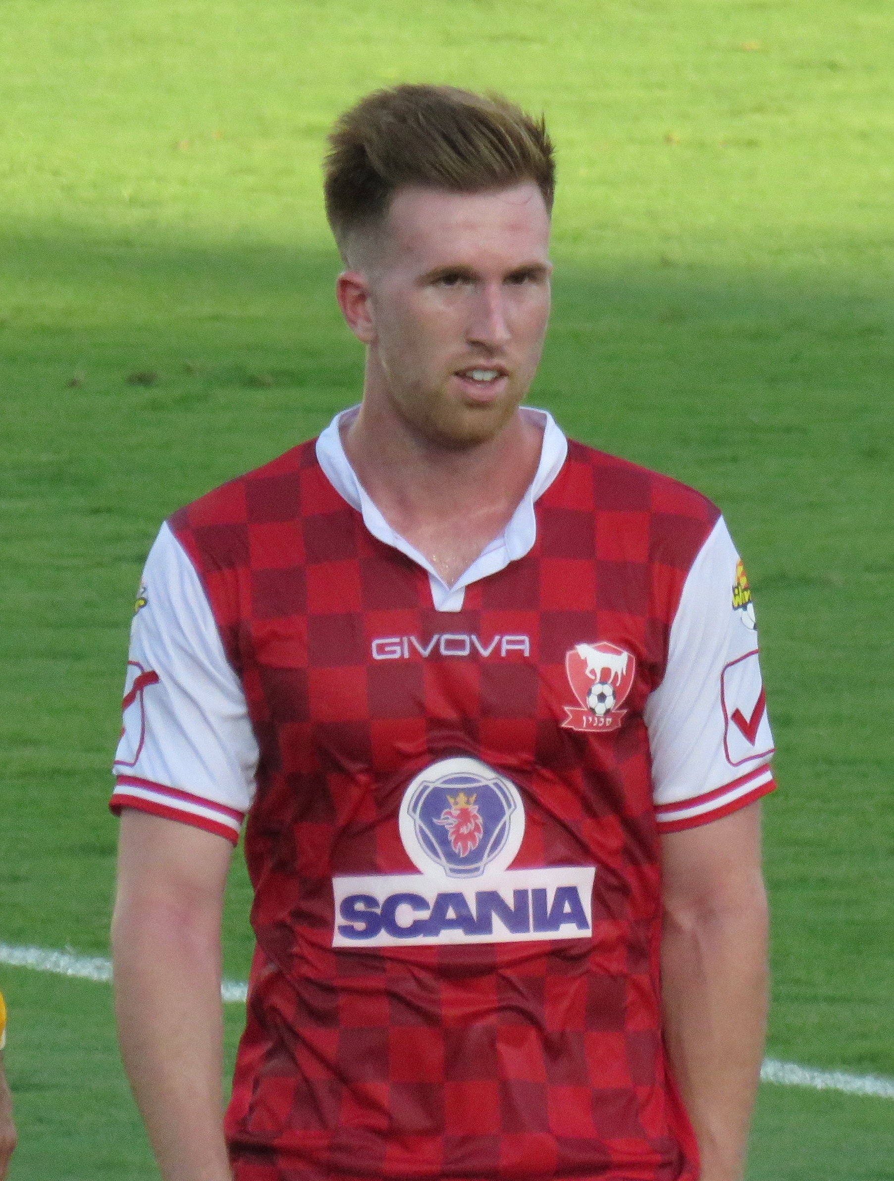 Maccabi Tel Aviv VS. Bnei Sakhnin, 22 August 2015